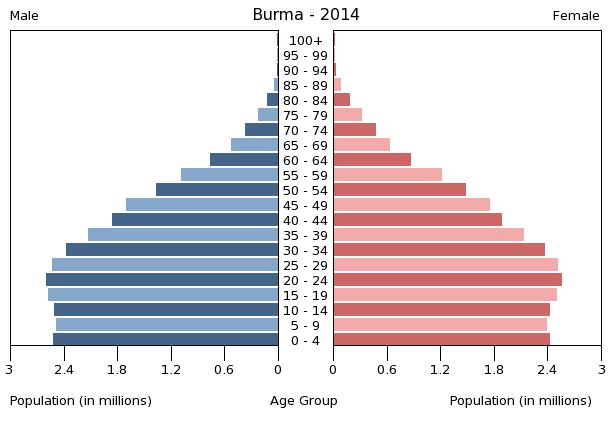 A population pyramid illustrates the age and sex structure of a Myanmar’s population and may provide insights about political and social stability, as well as economic development. The population is distributed along the horizontal axis, with males shown on the left and females on the right. The male and female populations are broken down into 5-year age groups represented as horizontal bars along the vertical axis, with the youngest age groups at the bottom and the oldest at the top. The shape of the population pyramid gradually evolves over time based on fertility, mortality, and international migration trends.